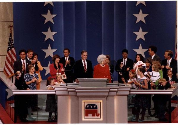 President George H. W. Bush and first lady Barbara Bush with their family